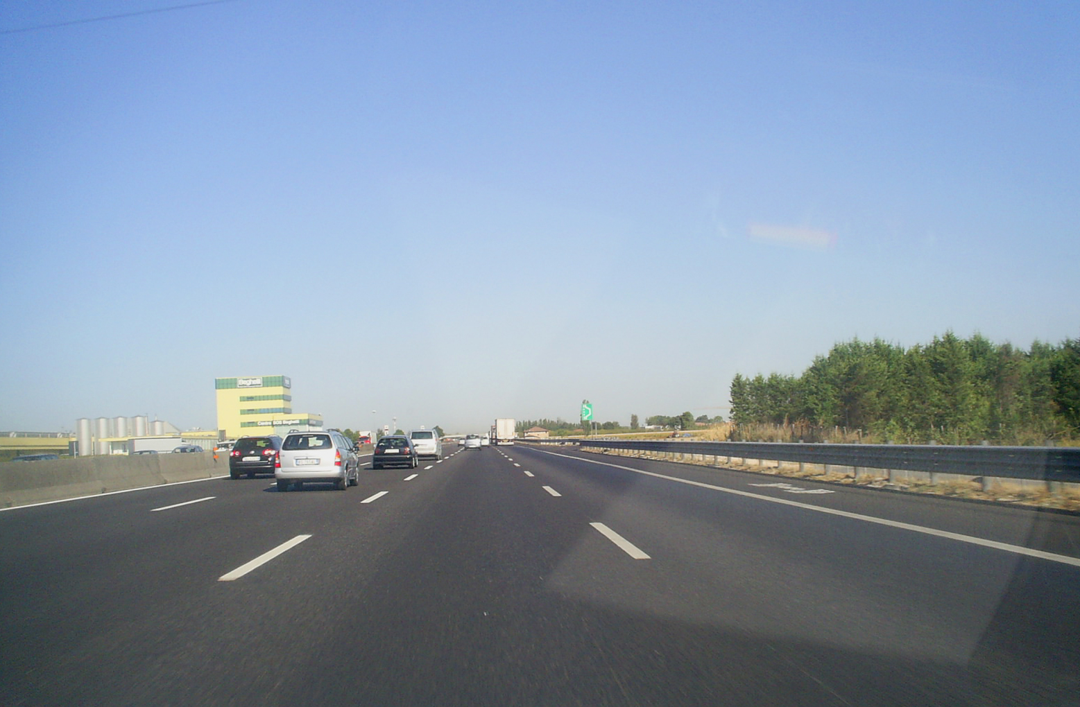 A1 highway, Italy, section Bologna - Modena